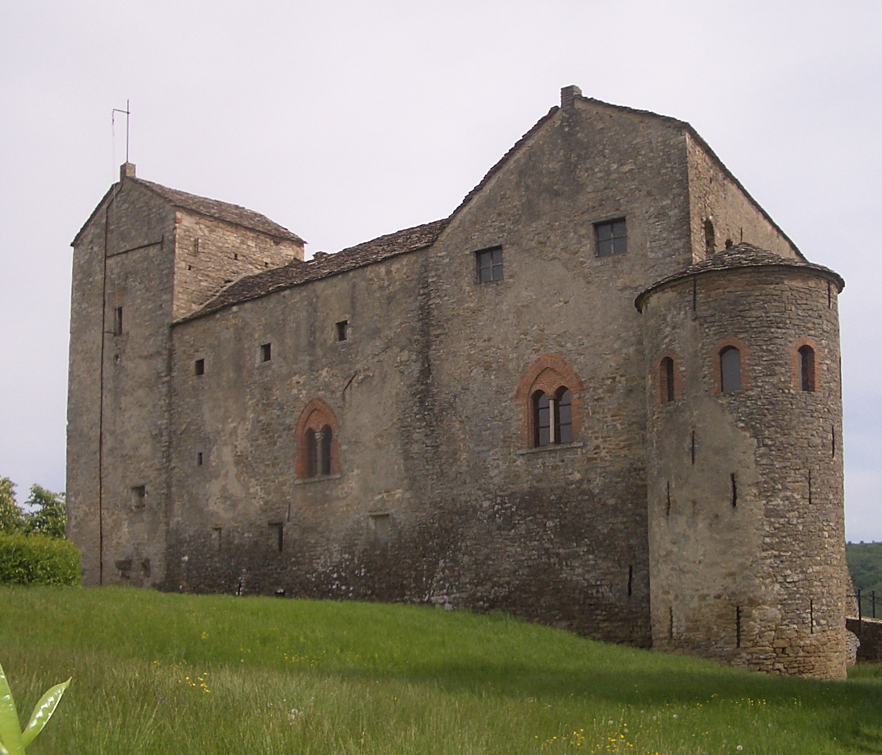 View of the castle (XII-XIII century), Prunetto, (CN), Italy